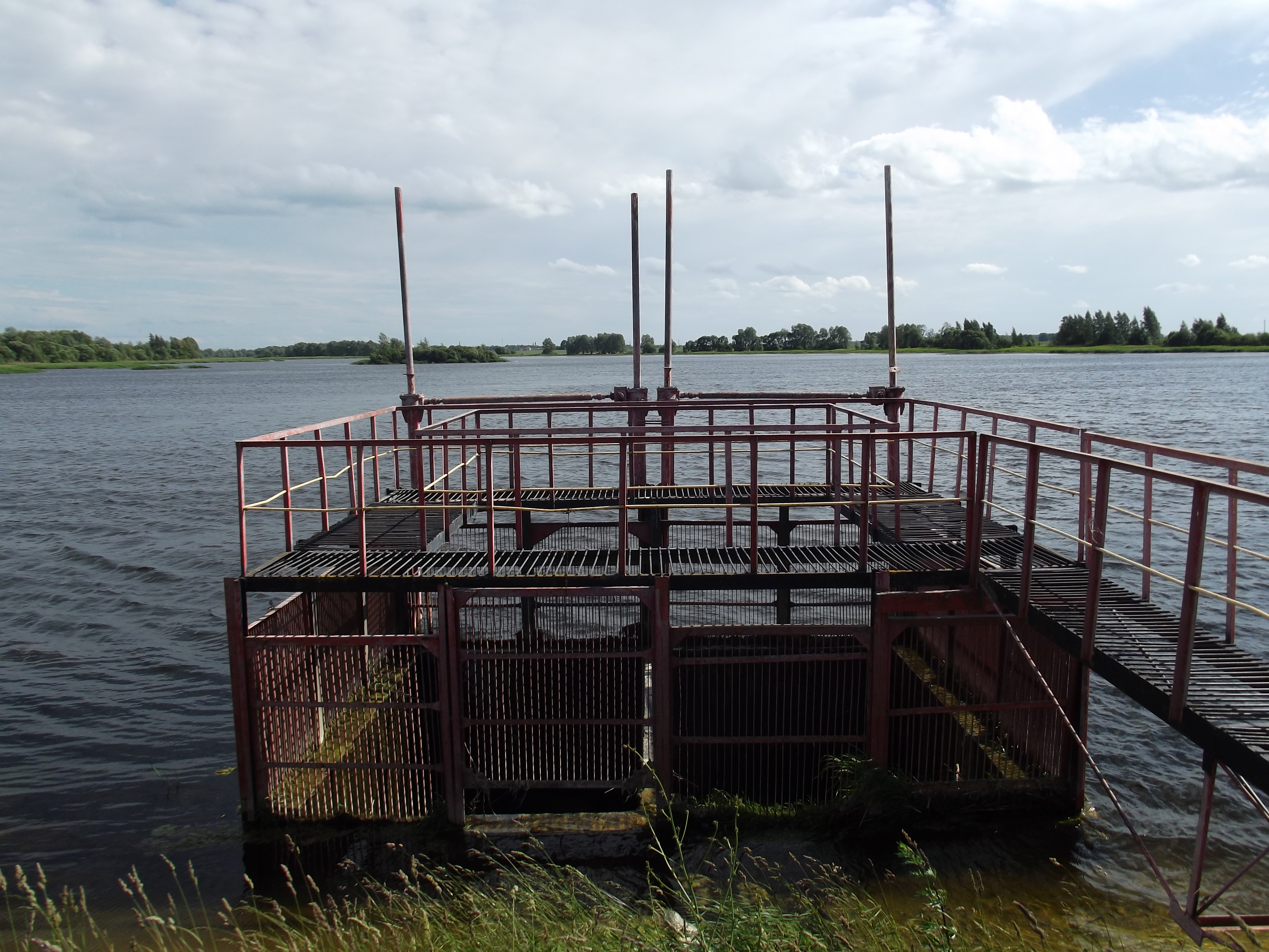 Pond in Baltausiai on Beržtalis River, Pakruojis district. Lithuania